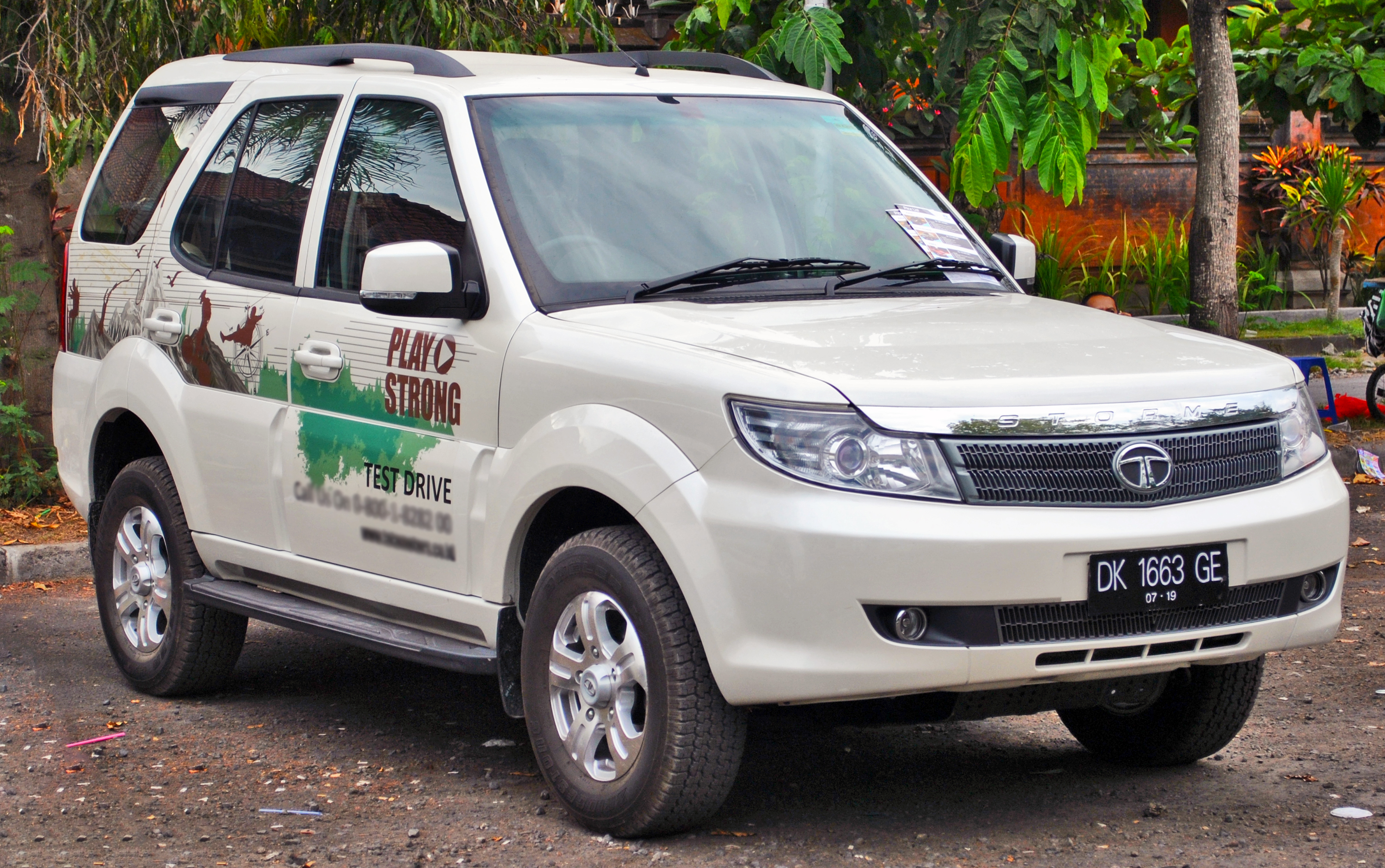 Tata Safari Storme test drive car in display at Lapangan Puputan Renon, Denpasar, Indonesia.